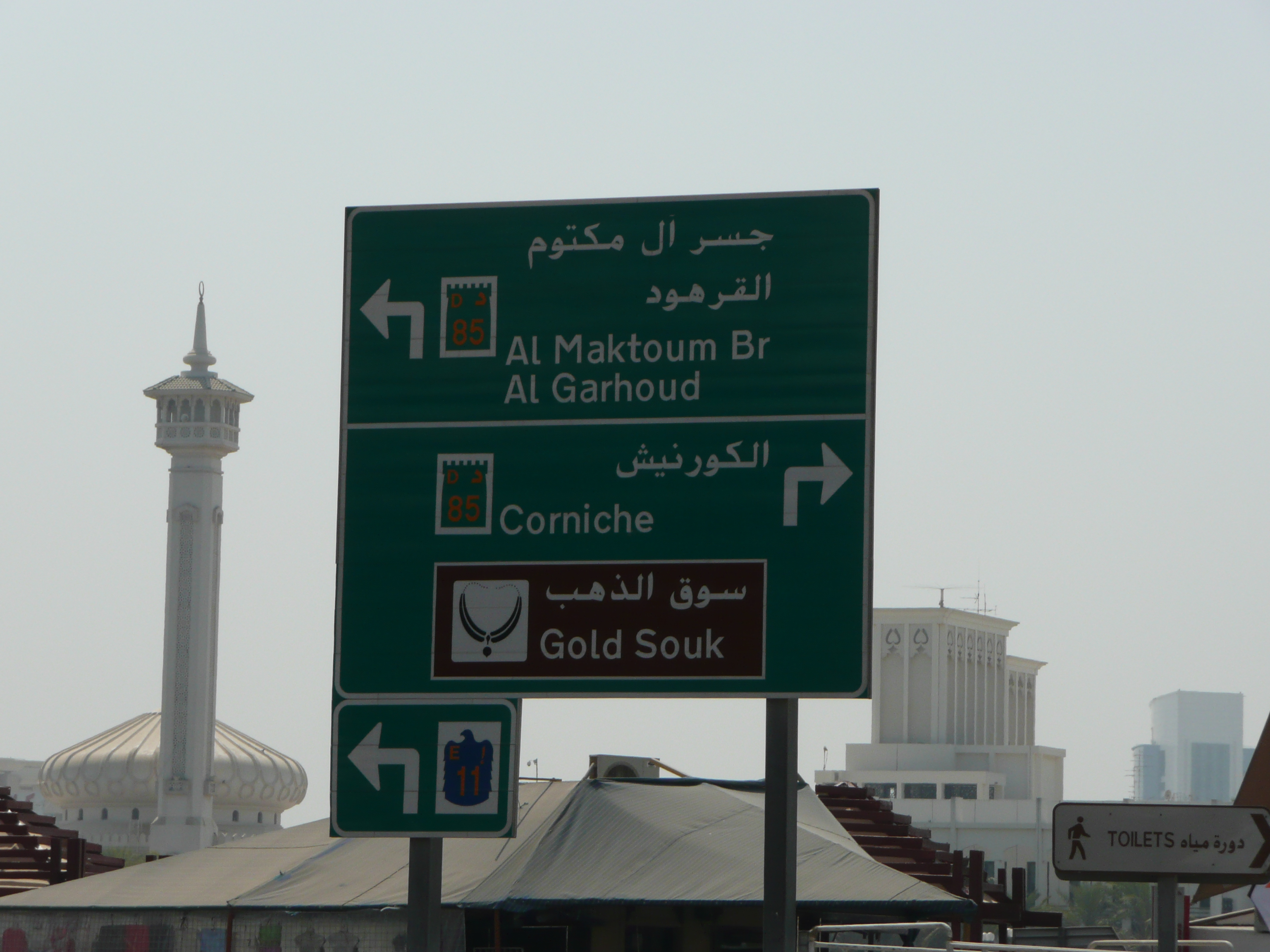 Directional road sign of the Dubai Gold Souk within Dubai, United Arab Emirates.